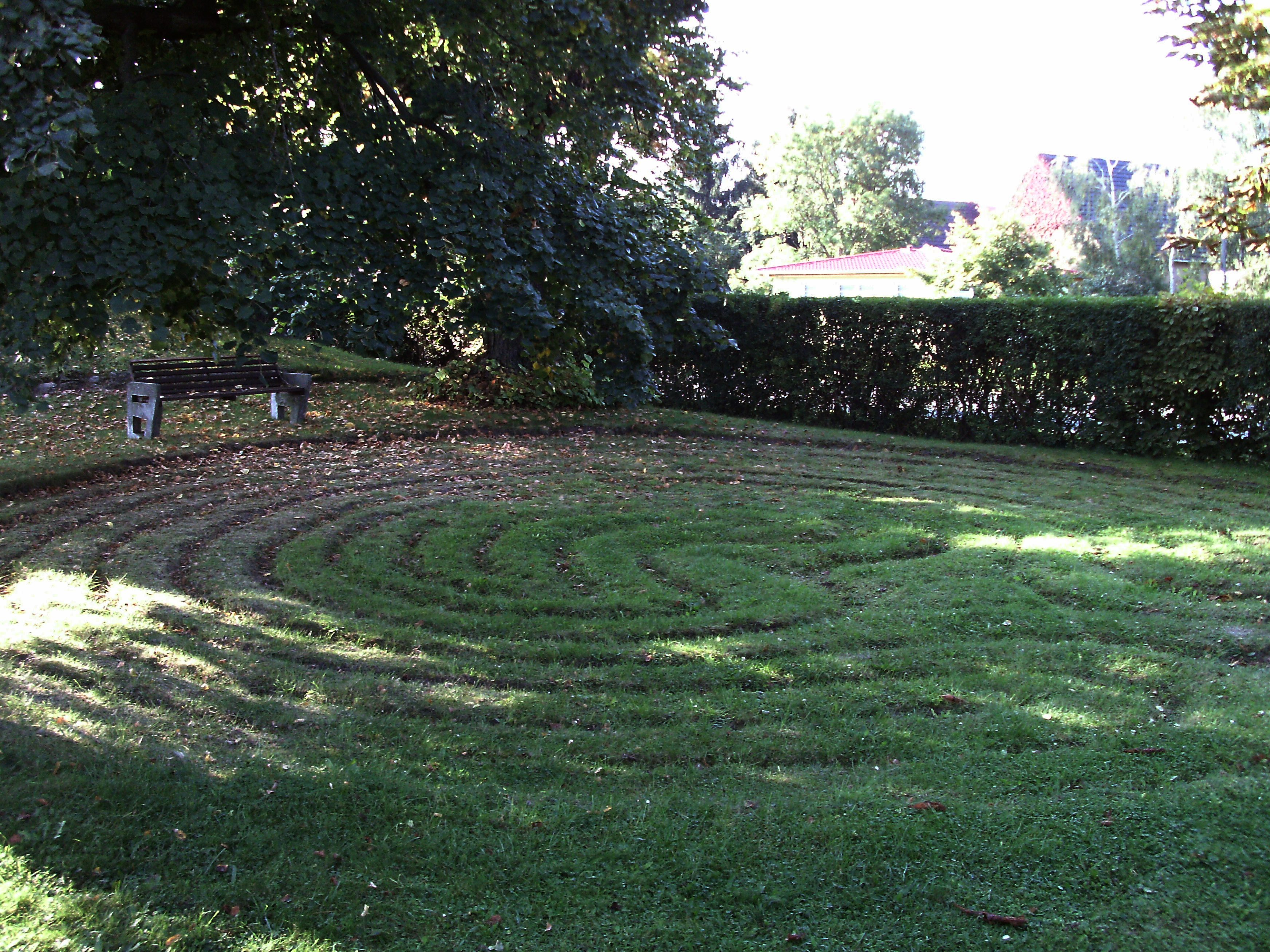 Turf maze "Troy Castle" in Steigra (district of Saalekreis, Saxony-Anhalt)